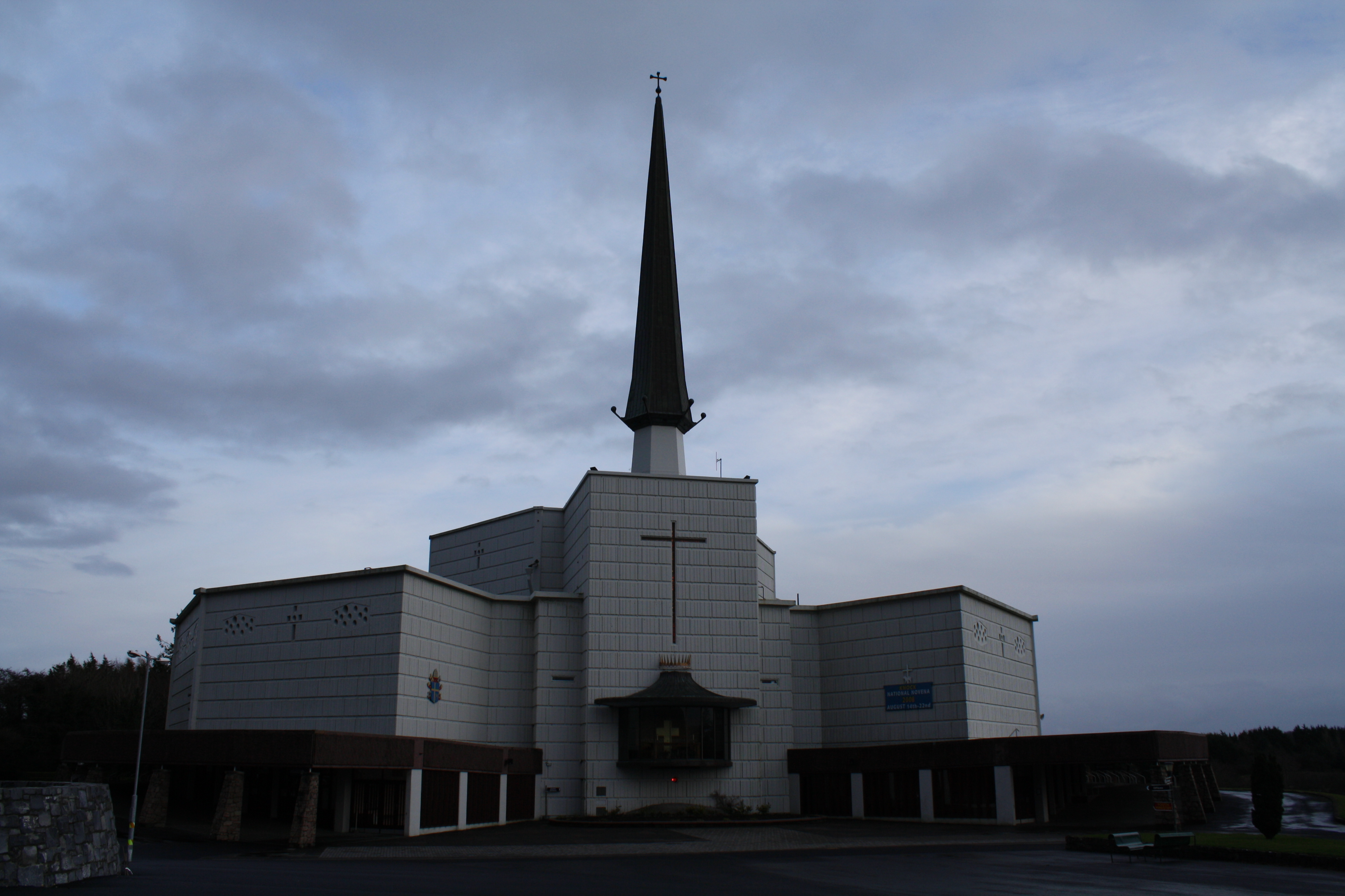 Knock Shrine,Co.Mayo,Ireland